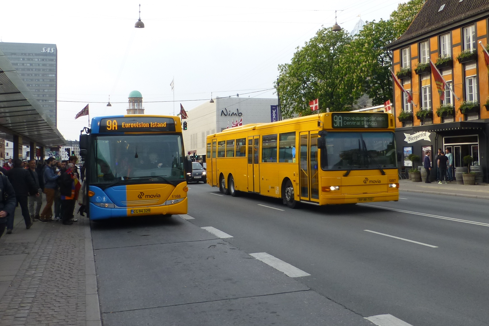 Extra buses at Eurovision Song Contest 2014 in Bernstorffsgade at Copenhagen Central Station.